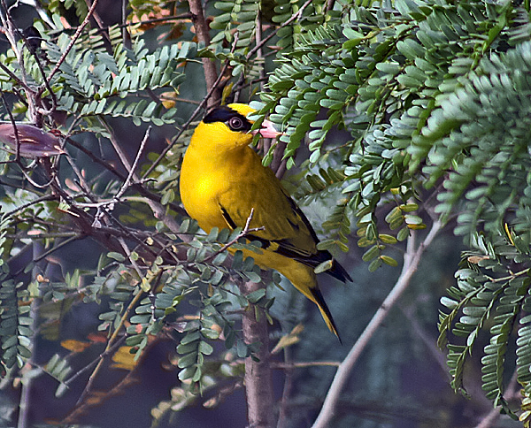 Black-naped Oriole Oriolus chinensis in Kolkata, West Bengal, India.